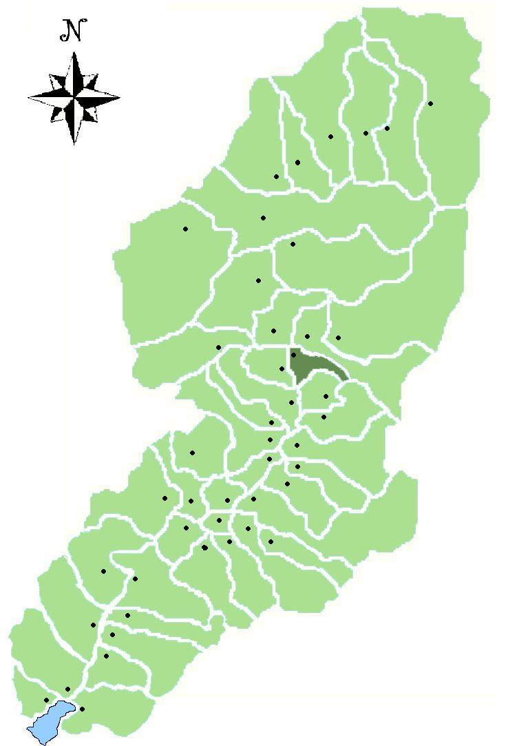 Map of the Comune of Cedegolo, Valle Camonica